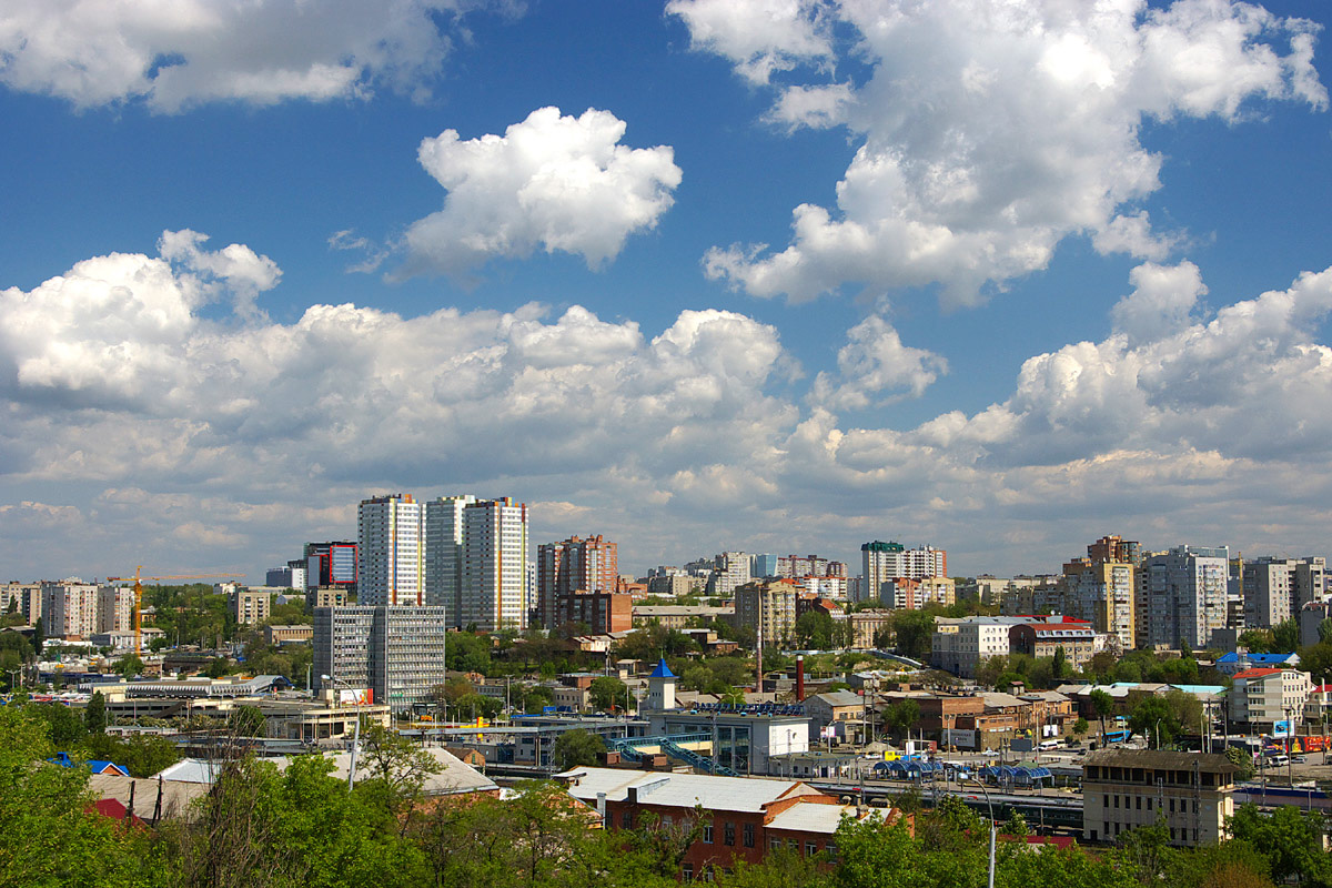 View on the Rostov-na-Donu